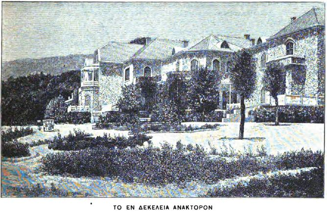 Hestia (1876) Author: Diomedes, Paulos Subject: Greek literature, Modern; Greek periodicals Publisher: Athēnēsi : s.n. Year: 1894 Possible copyright status: NOT_IN_COPYRIGHT Language: Greek Digitizing sponsor: Google Book from the collections of: Harvard University Collection: americana